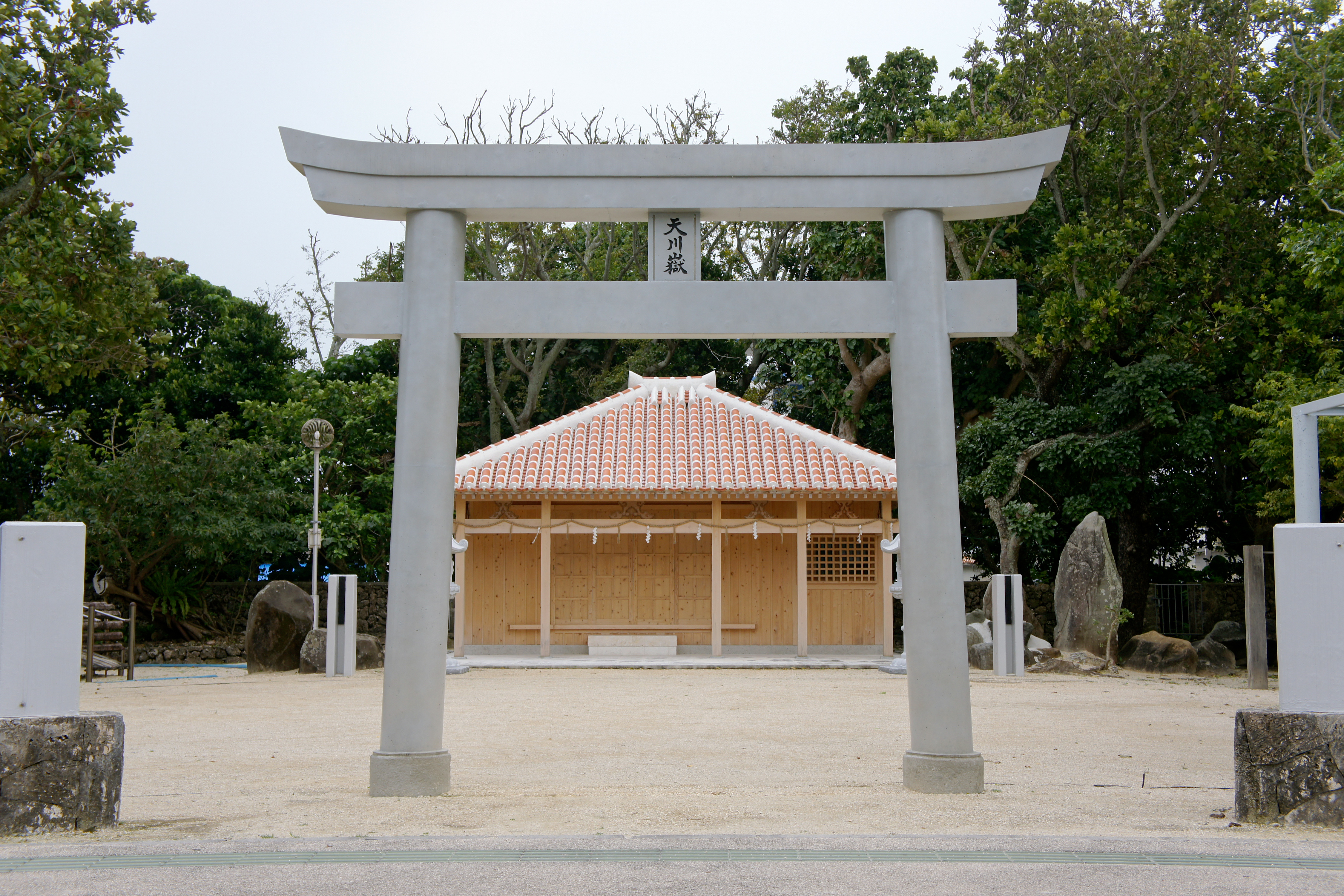 Ama-On is a sacred site in Ishigaki Island, Ishigaki City, Okinawa Prefecture, Japan.